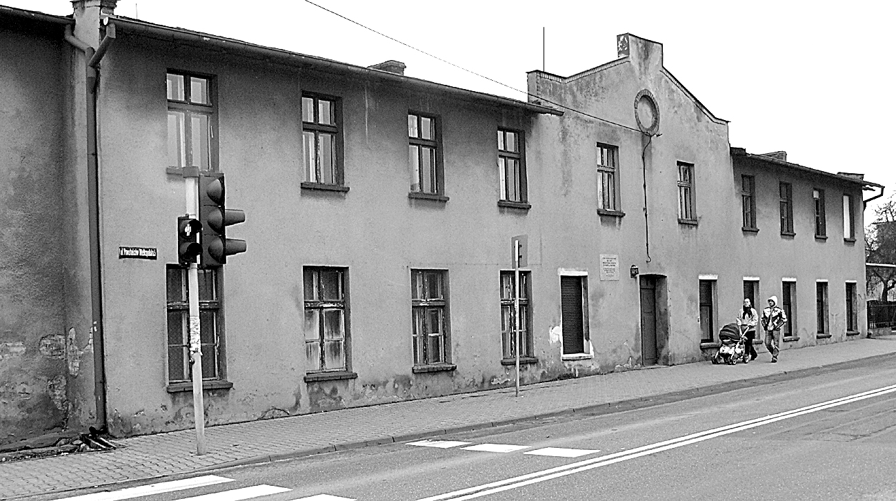 Dawny Budynek Pierwszej Wyższej Szkoły Rolniczej w Wielkopolsce - Luboń (1870)